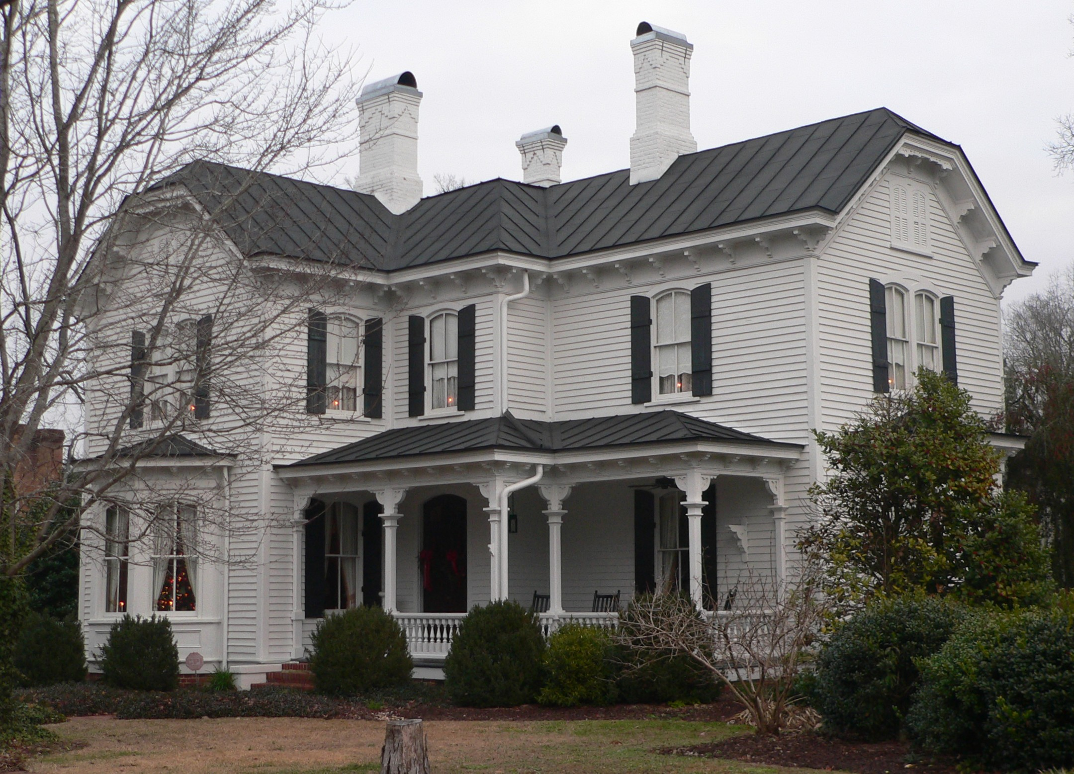 Hood-Strickland house, located at 415 S. 4th Street (northeast corner of 4th and Davis Streets) in Smithfield, North Carolina; seen from the south-southwest.